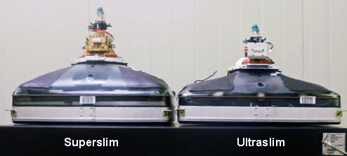 A comparison between 21 inch Superslim and Ultraslim CRT. Superslim CRT is 352 mm. Ultraslim CRT is 295.7 mm.